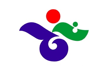 Flag of Bizen Okayama